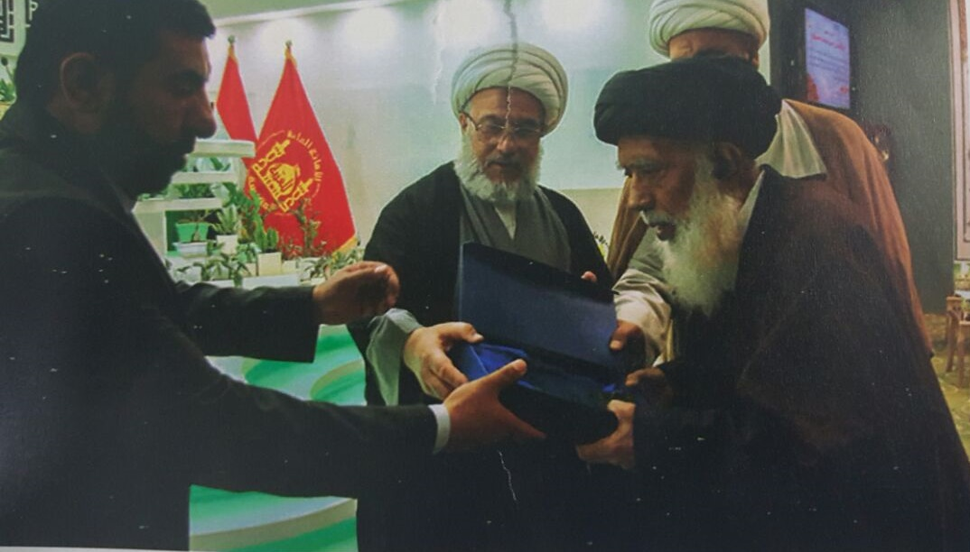 سید طیب جزایری - کربلا